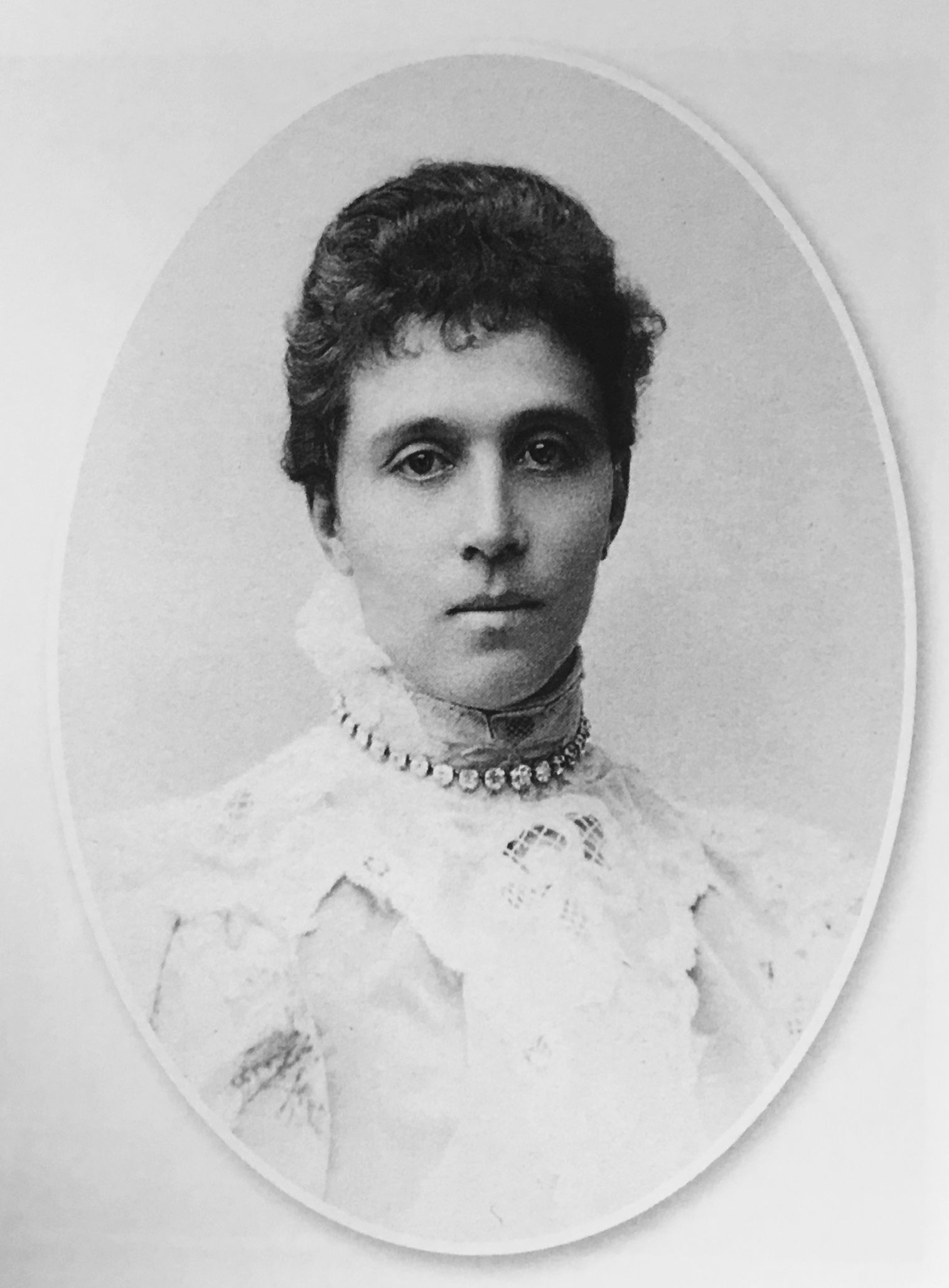 Maria Antonia, Duchess of Parma (nee Infanta of Portugal)